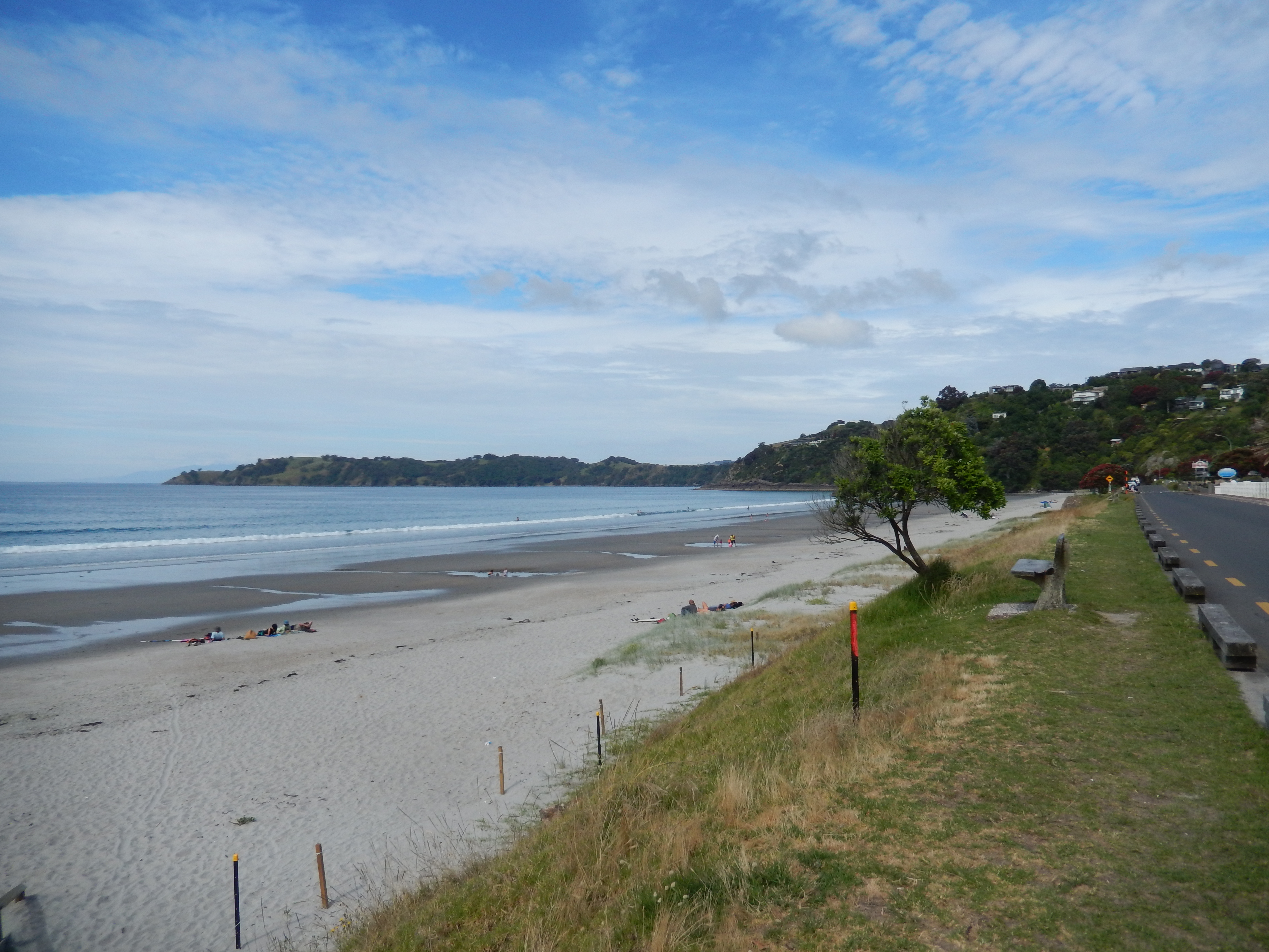 Onetangi Beach on Waiheke Island, Auckland, New Zealand. The road at the right of the picture is The Strand.